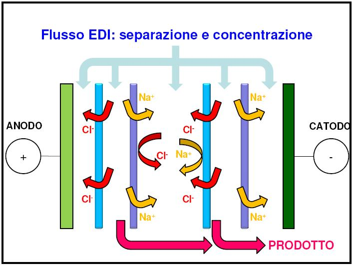 schematic view of EDI process